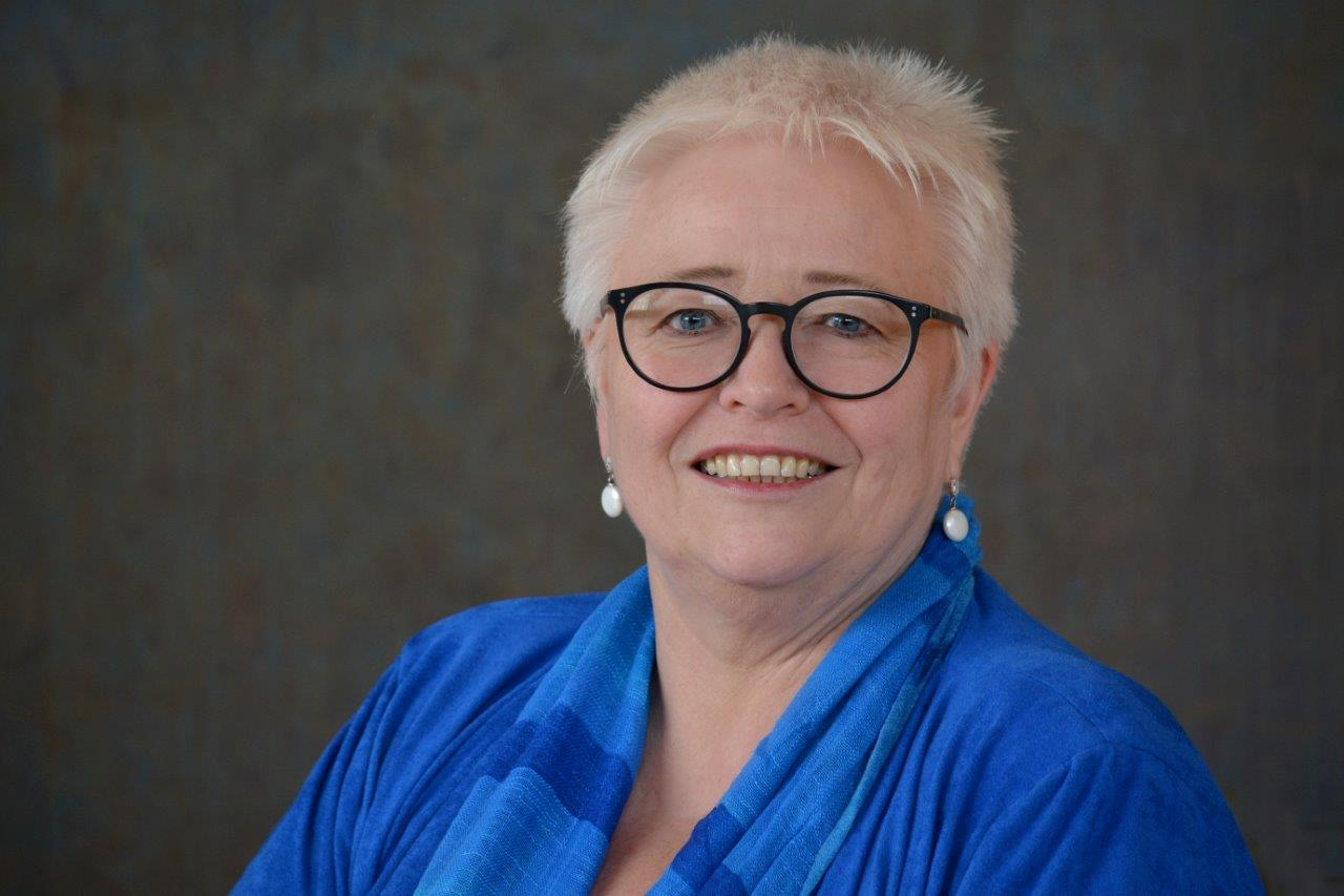 Picture